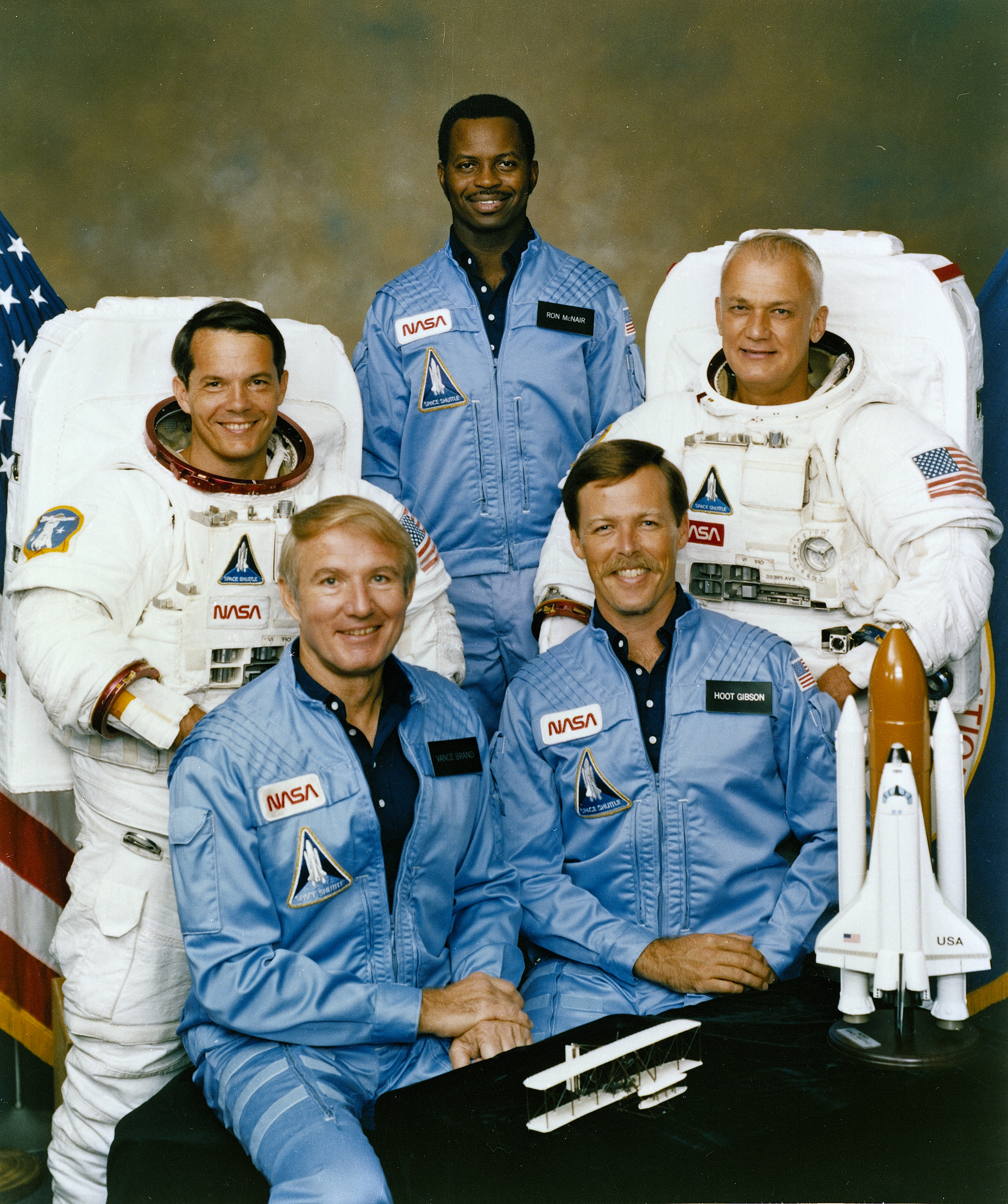 The crew assigned to the STS-41B (STS-11) mission included (seated left to right) Vance D. Brand, commander; and Robert L. Gibson, pilot. Standing left to right are mission specialists Robert L. Stewart, Ronald E. McNair, and Bruce McCandless.